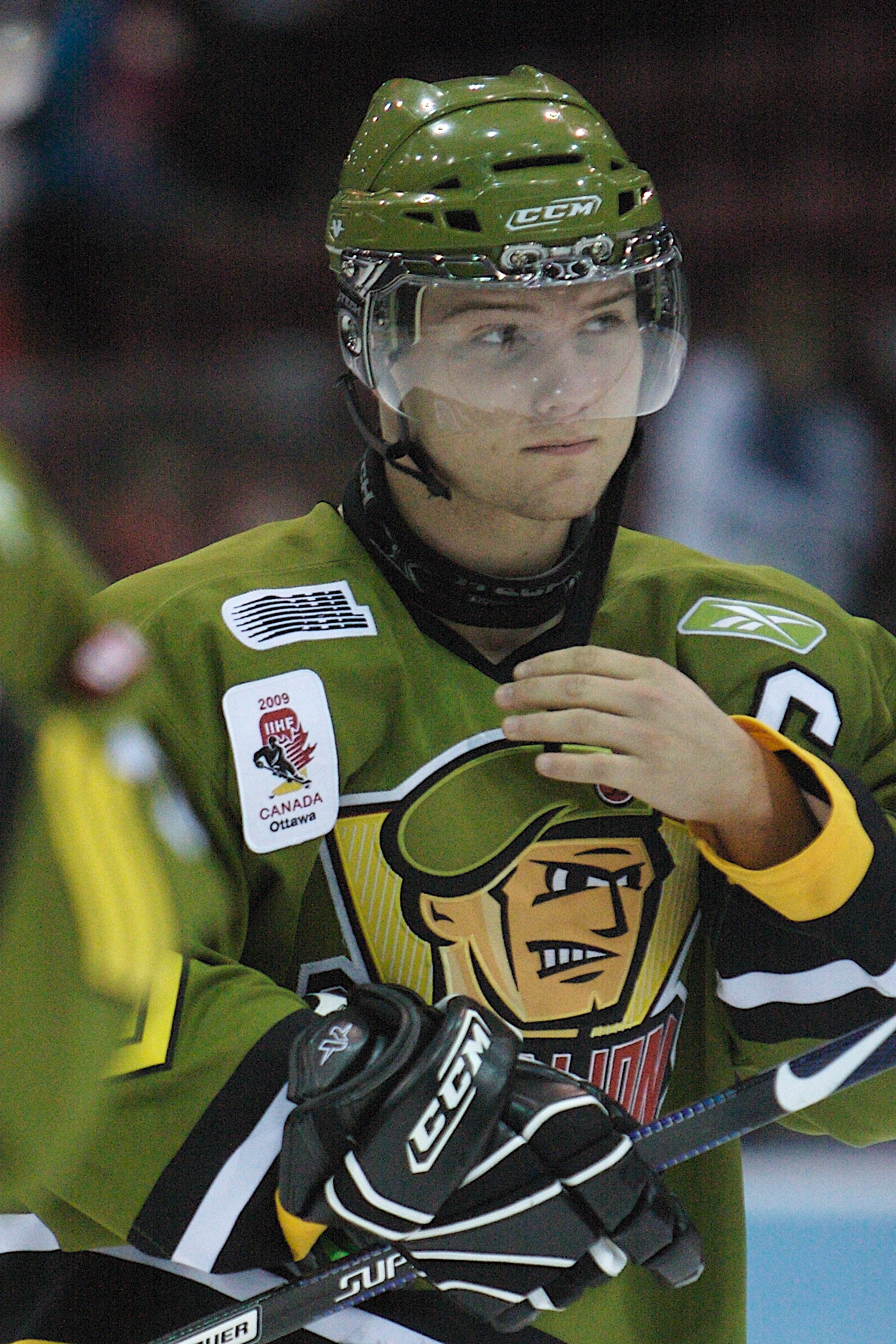 Cody Hodgson Ontario Hockey League OHL CHL Brampton Batalion. This photo was taken on November 12, 2008 using a Canon EOS 40D.